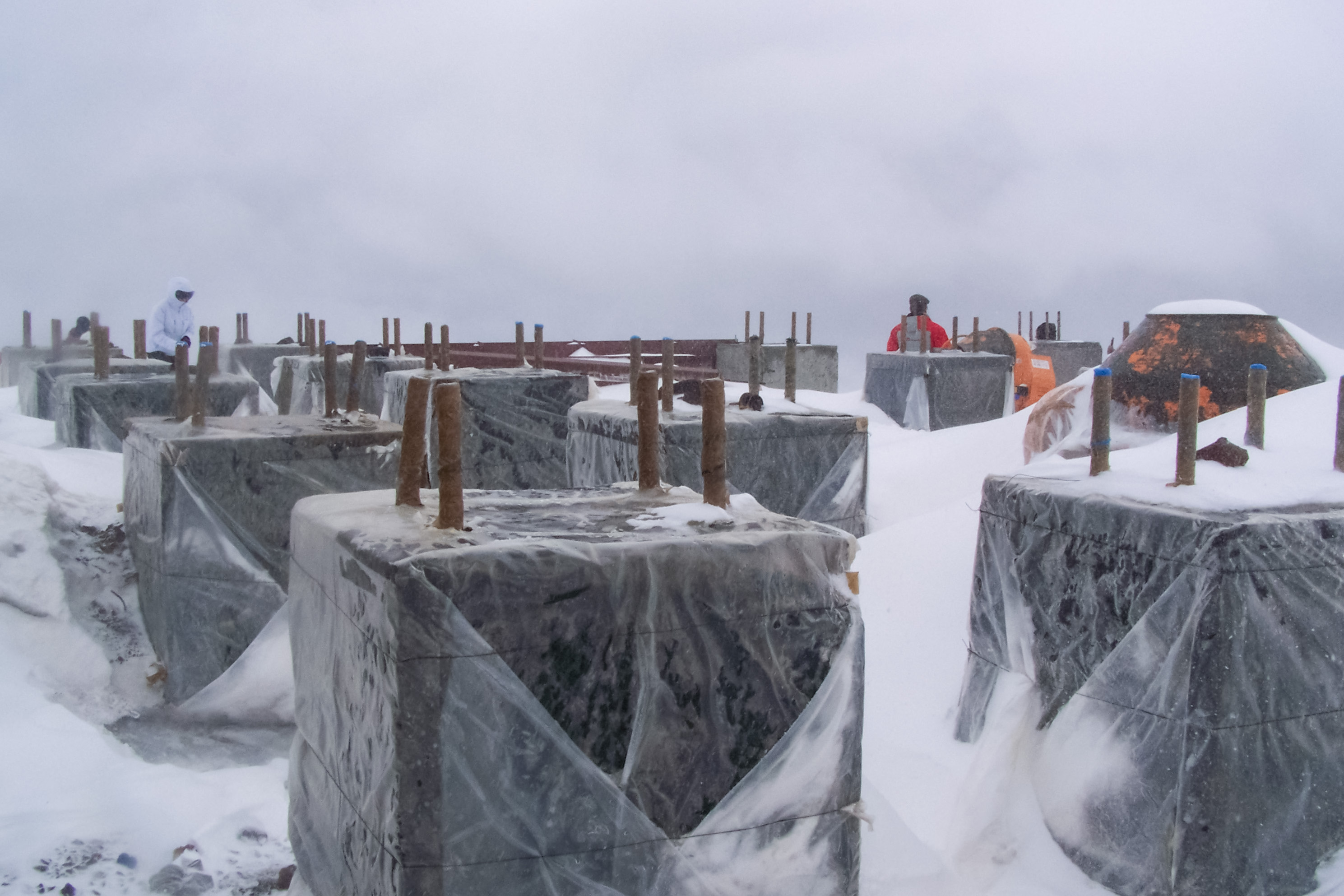 Foundations for the new building of the Shelter of the Eleven, a high-altitude mountaneers' base camp on Mount Elbrus.